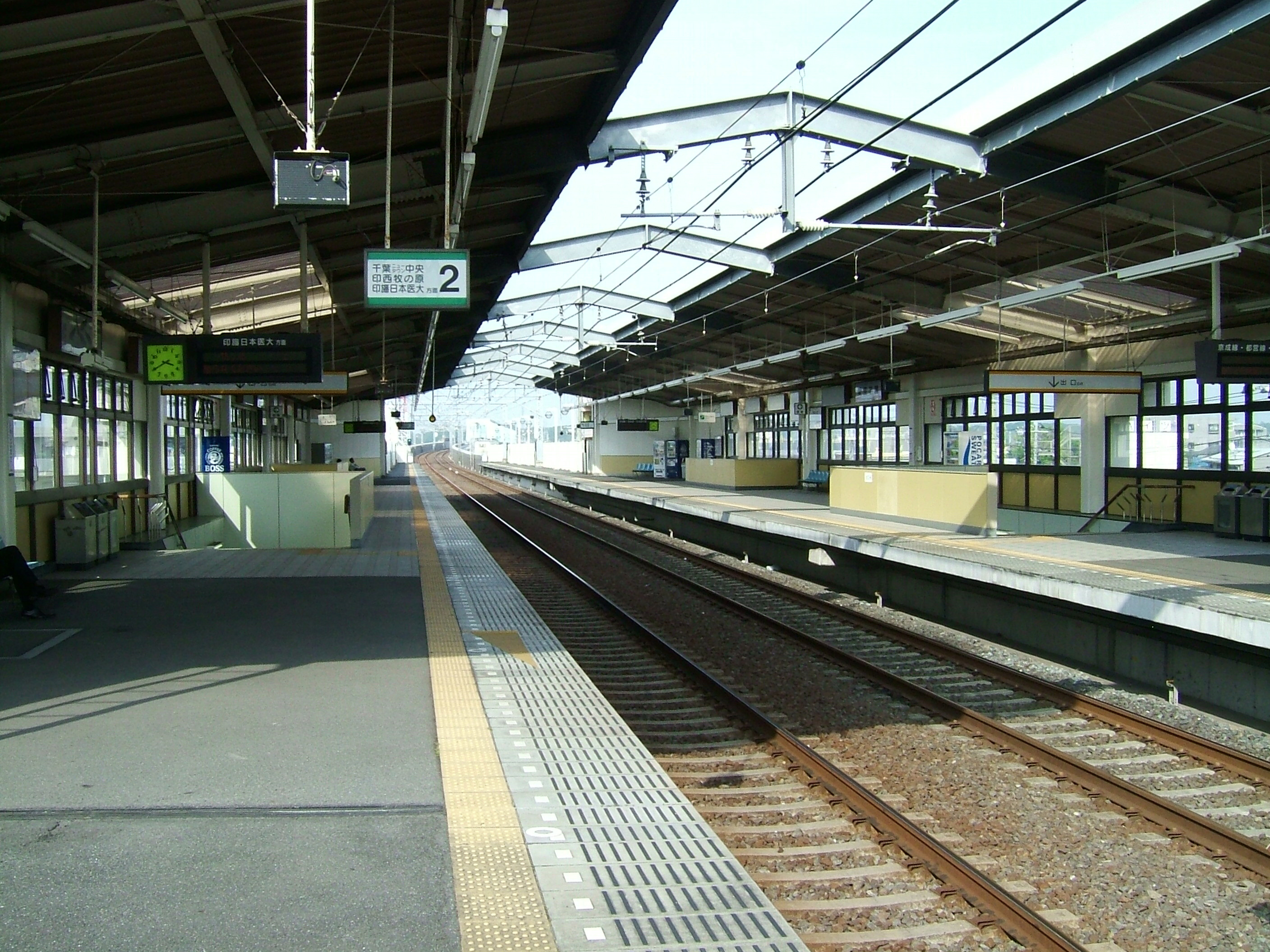 The platforms at Shin-Shibamata Station on the Hokusō Railway in Katsushika, Tokyo, Japan